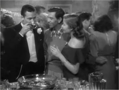 Screenshot taken by me (Icea) from the trailer to the movie Sunset Blvd.